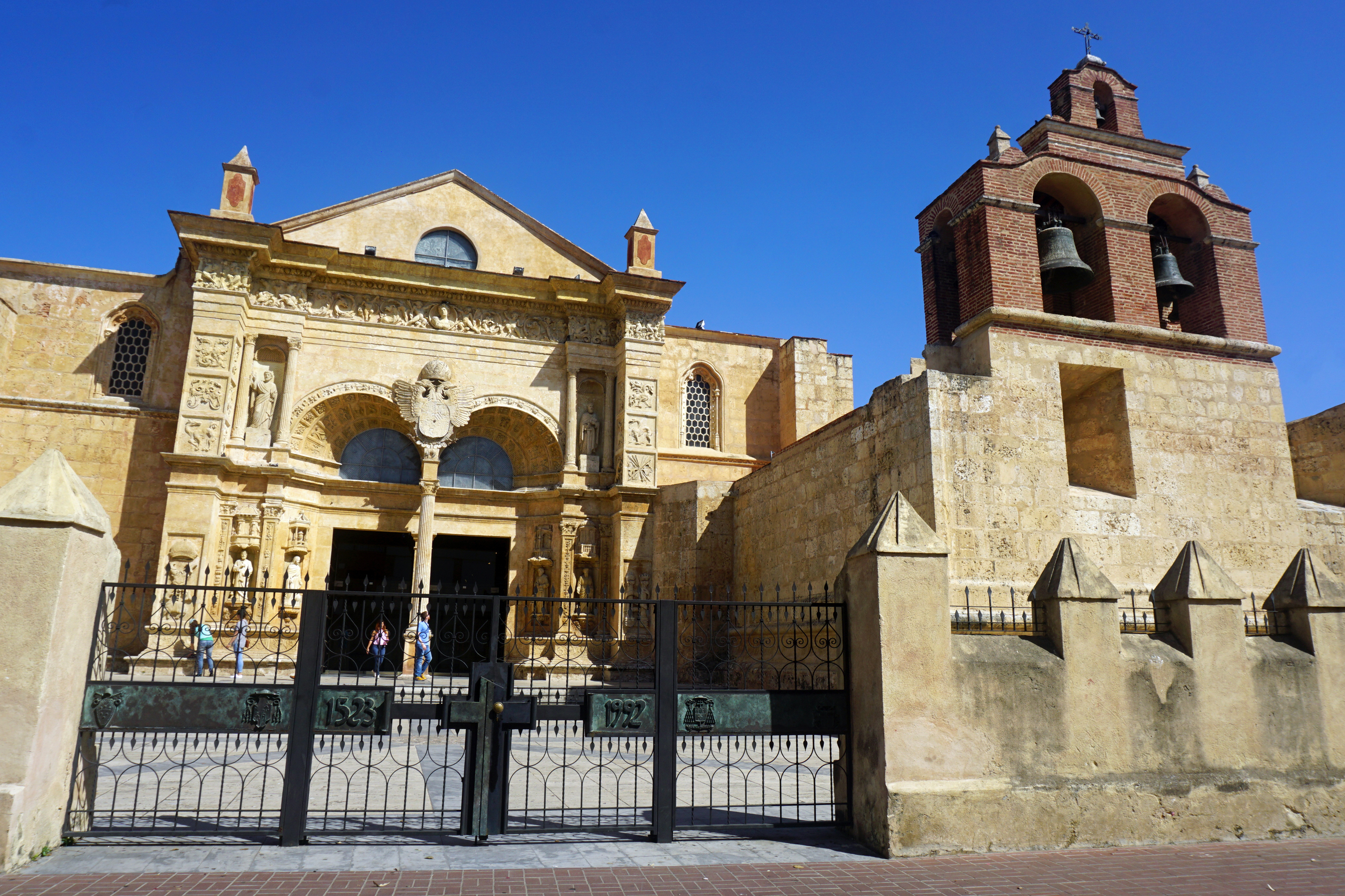 Catedral Primada de América o Basílica Santa María la Menor, Ciudad Colonial, Santo Domingo, RD.